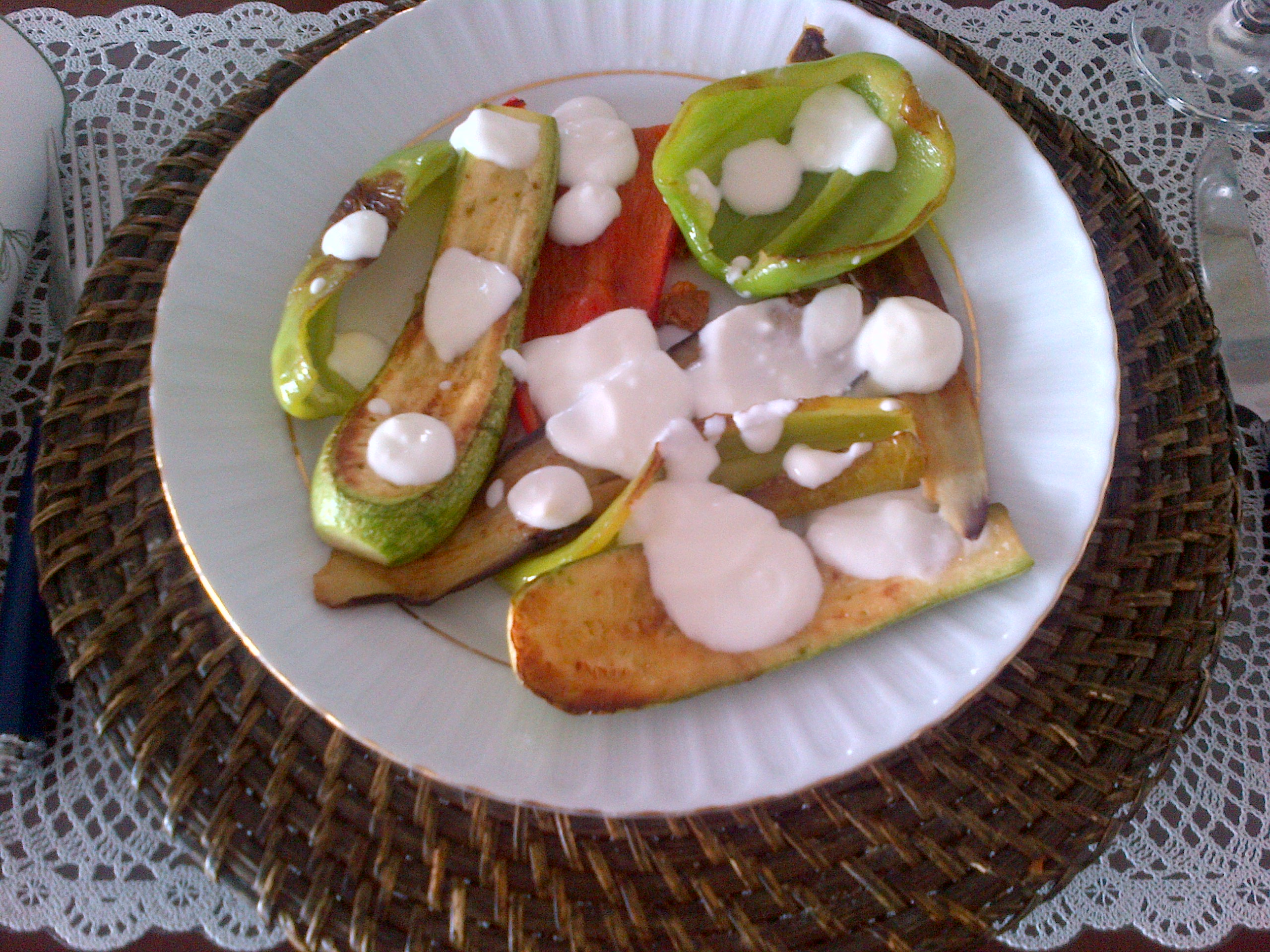 "Karışık kızartma" or fried vegetables (mixed) from the Turkish cuisine. Contains eggplants, courgette, green peppers, and red peppers, Yoghurt with garlic sause on top.